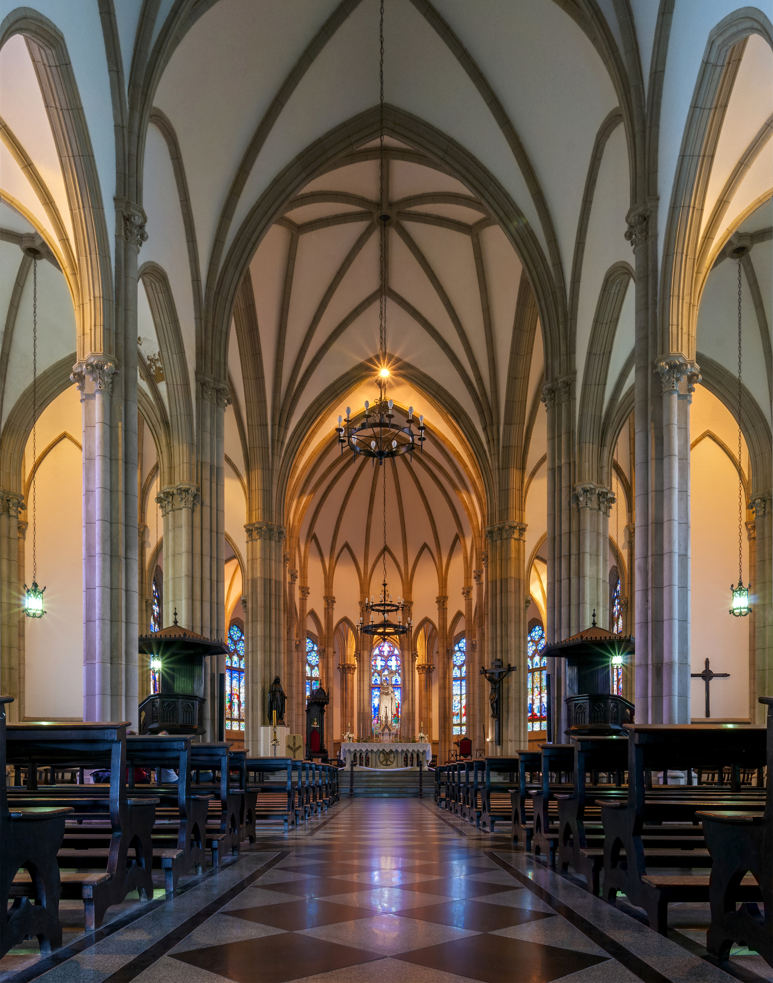 Catedral de Petrópolis or Catedral de São Pedro de Alcântara (St. Peter of Alcantara Cathedral) is located in Petrópolis, near Rio de Janeiro, in Brazil.